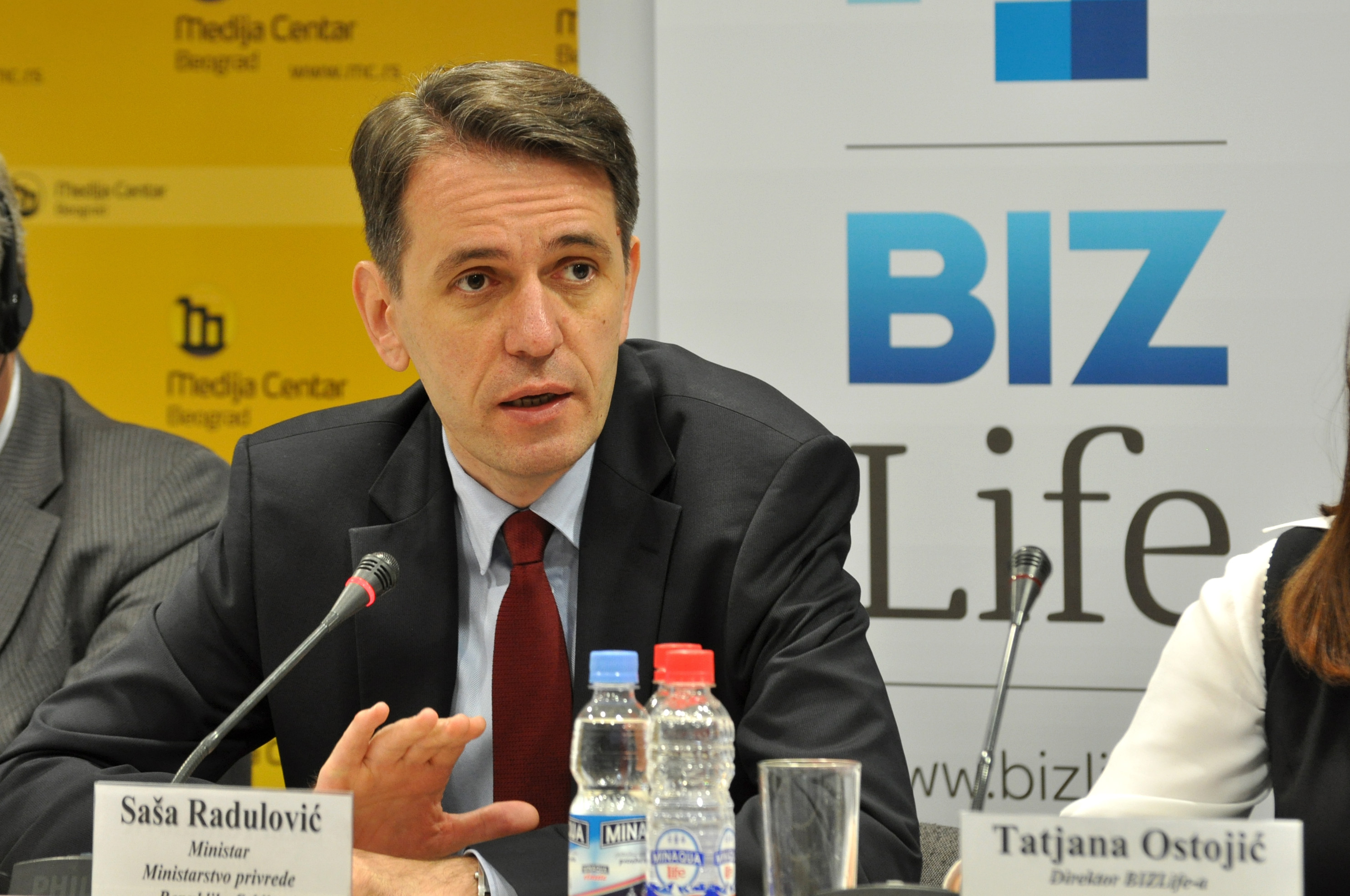 Saša Radulović